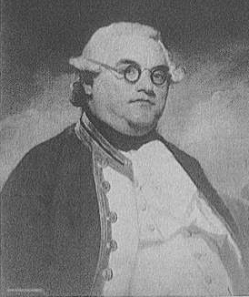 Admiral Peter Rainier, head-and-shoulders portrait